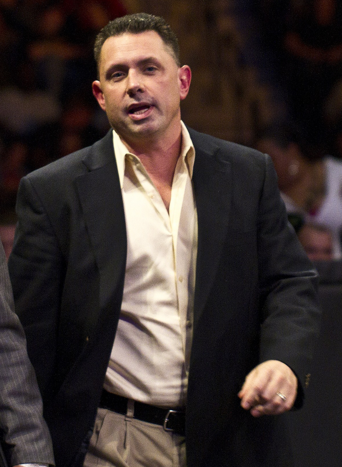 Michael Cole in November 2010